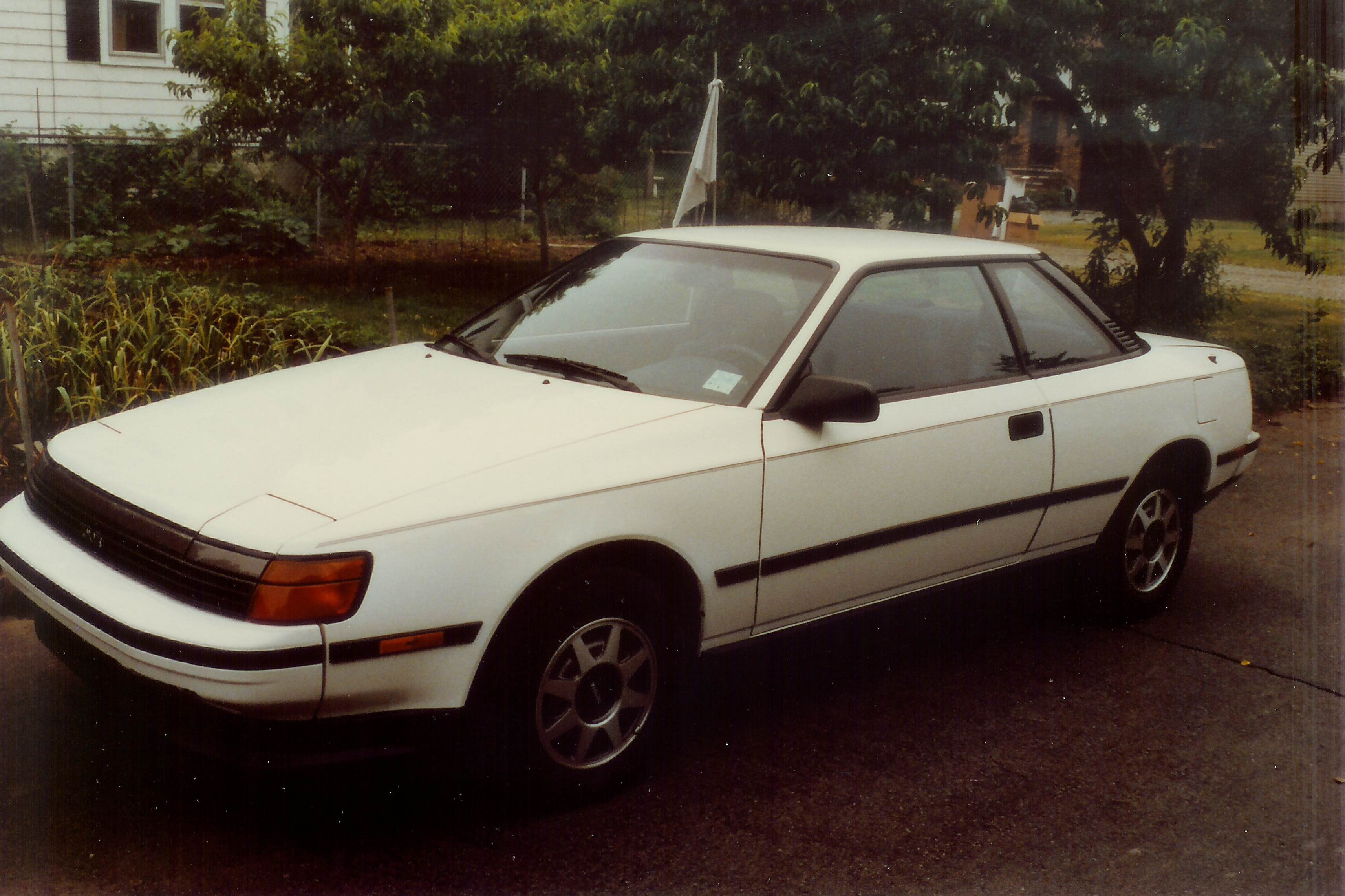 1988 Toyota Celica GT Coupe